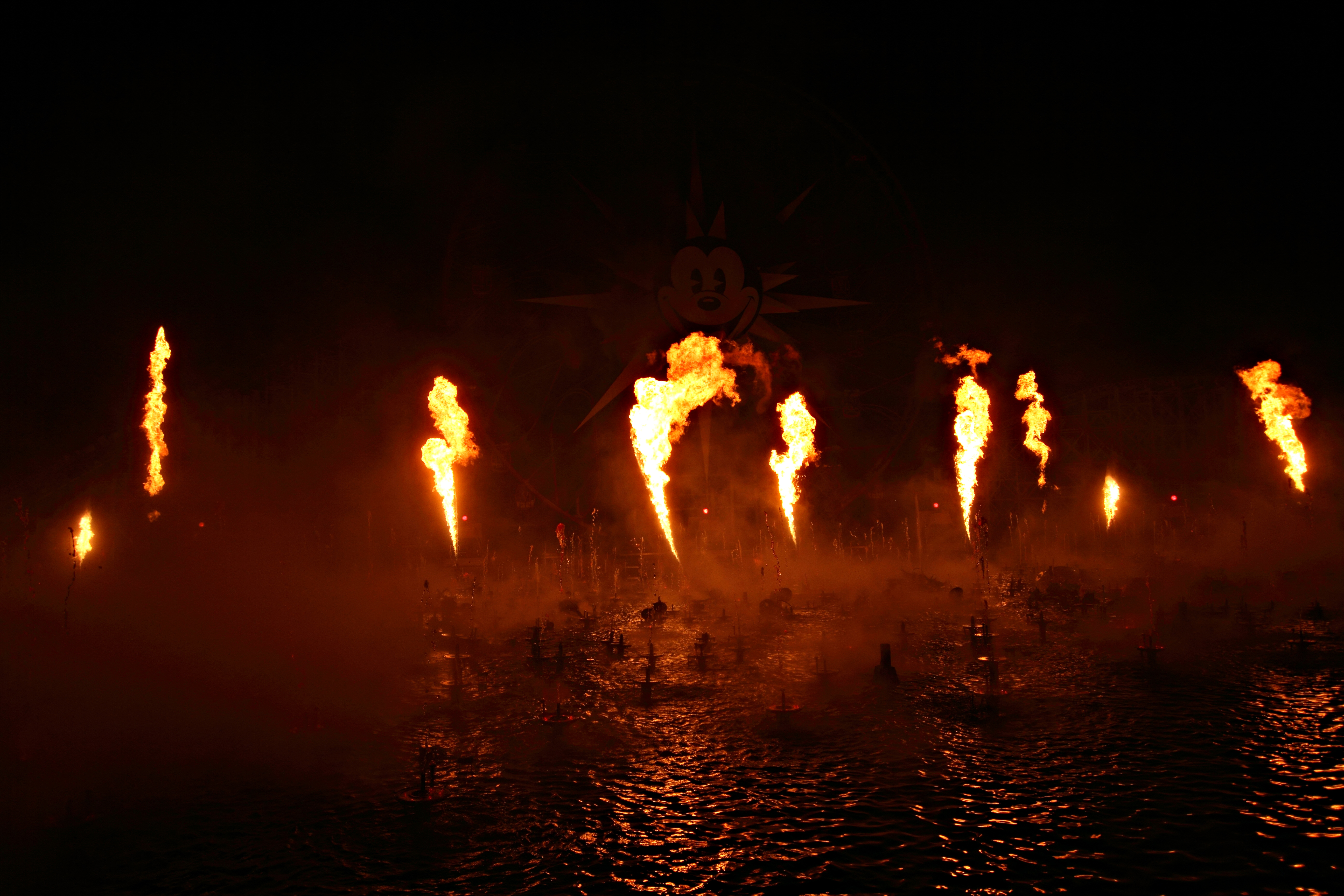 World of Color - Disneyland California Adventure Fire